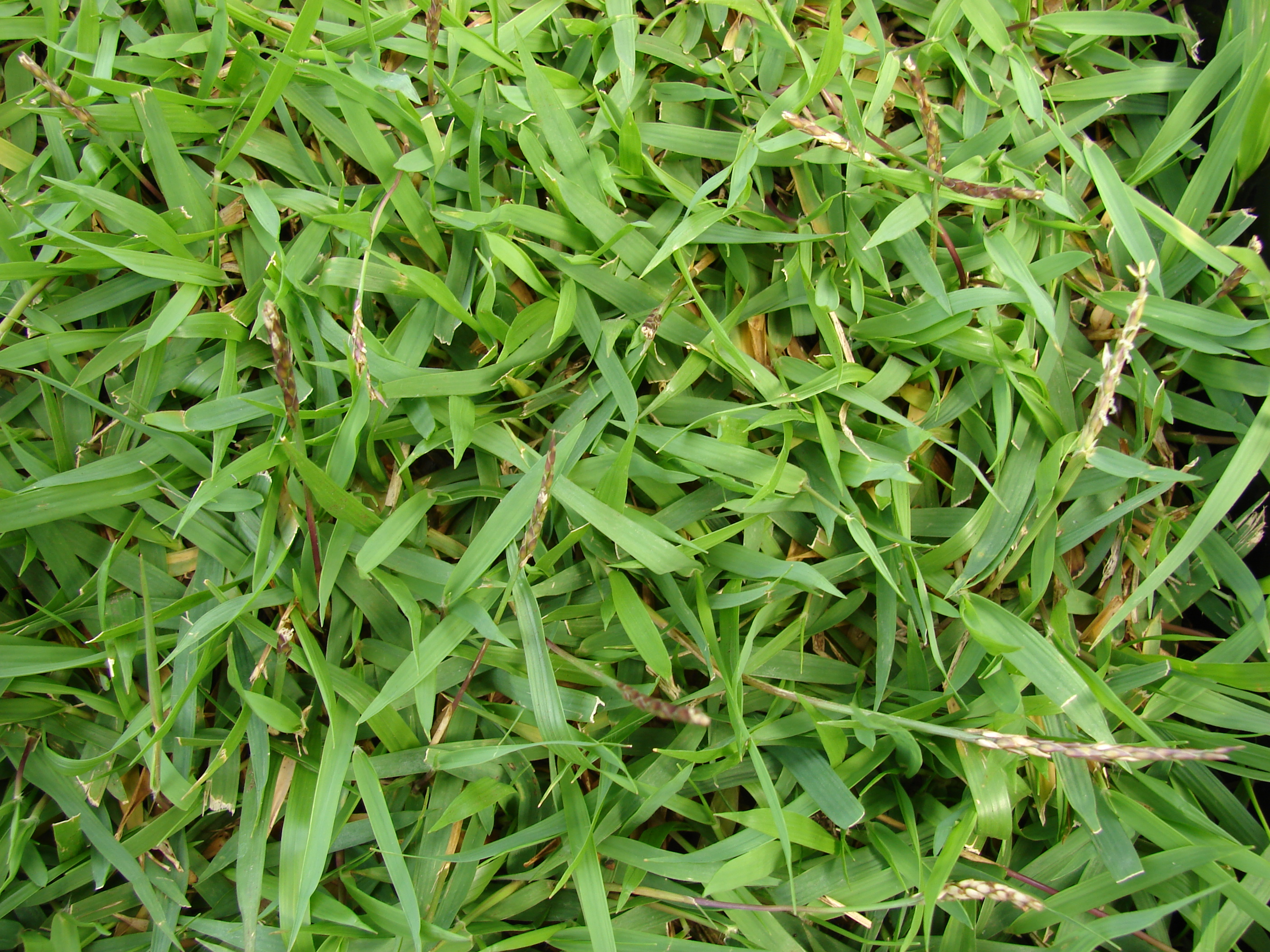 Zoysia sp. (turf). Location: Maui, Kula Ace Hardware and Nursery